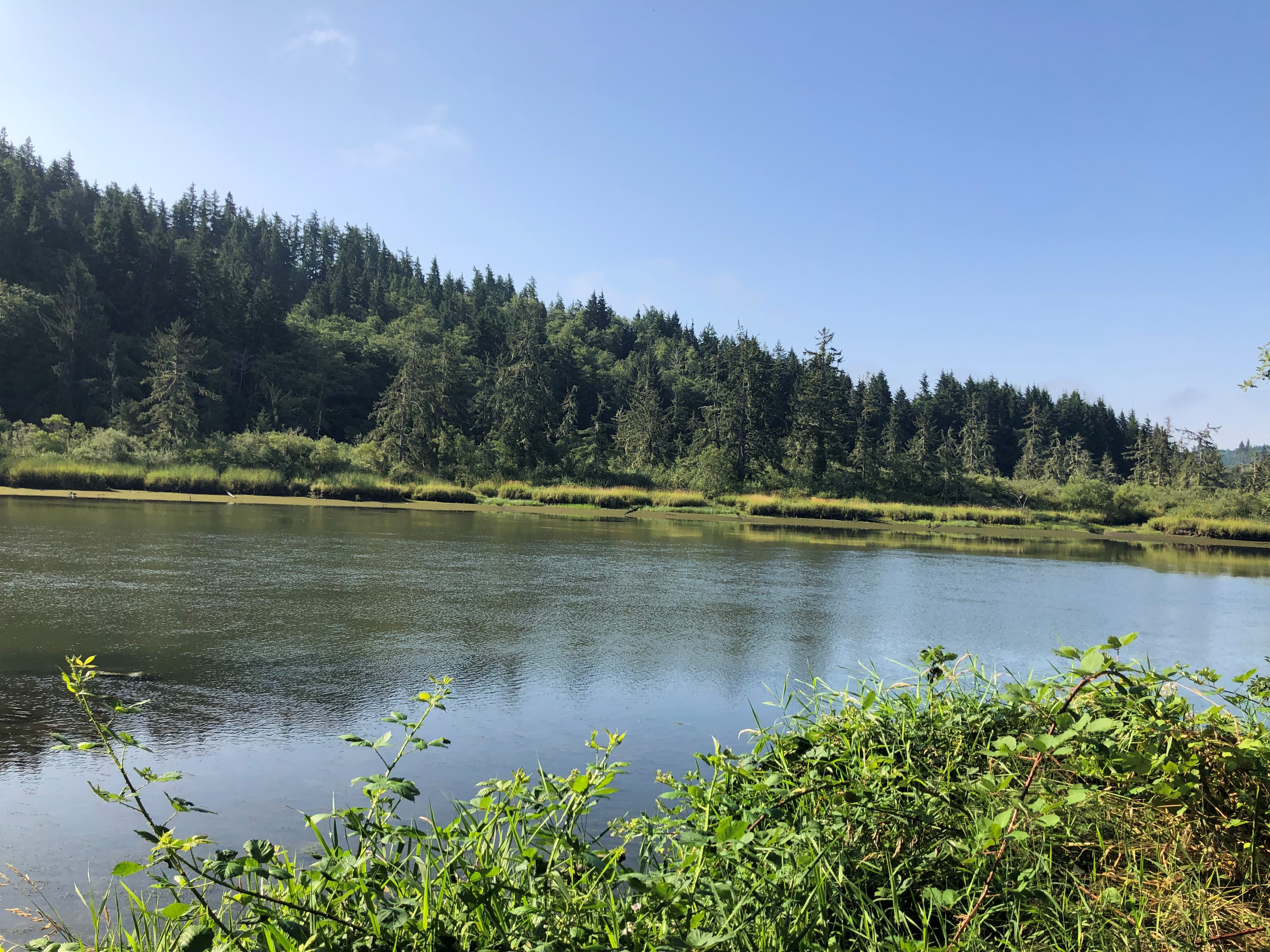 John Day River from John Day County Park (northwestern Oregon)